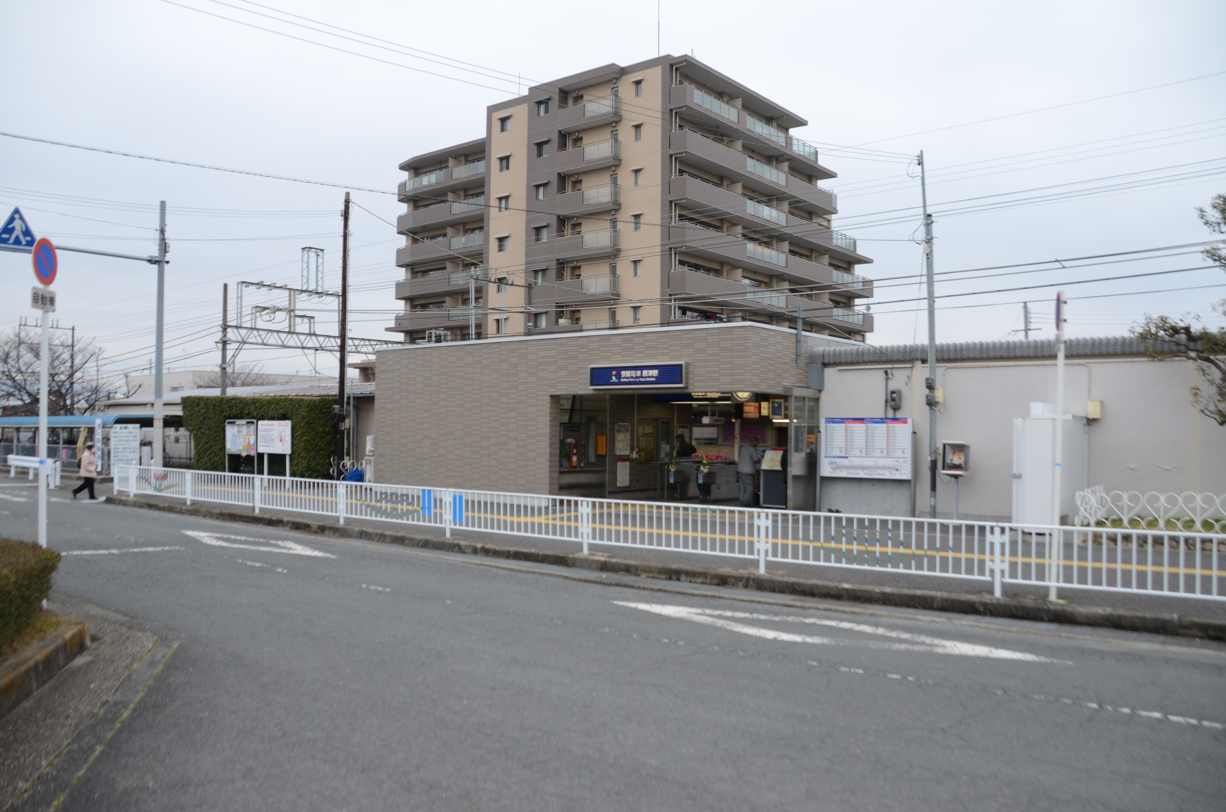 Keihan Electric Railway Kozu station